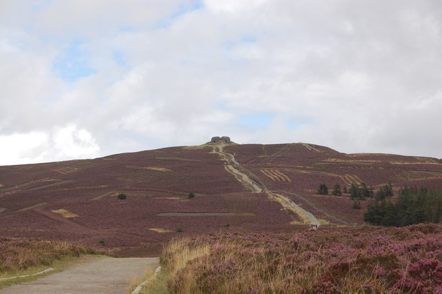 Offa's Dyke footpath ascends Moel Famau